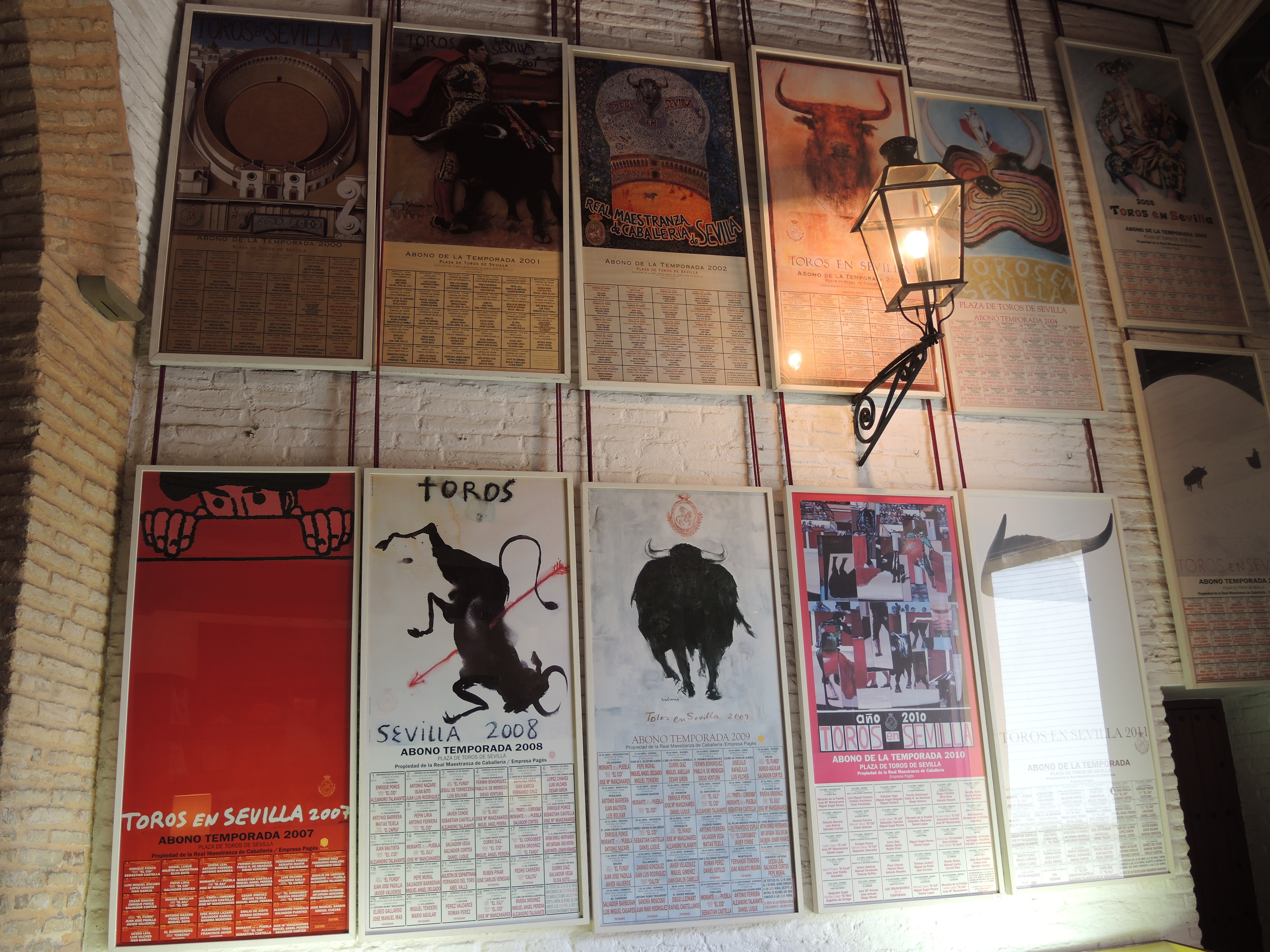 Seville bullfighting posters in entry